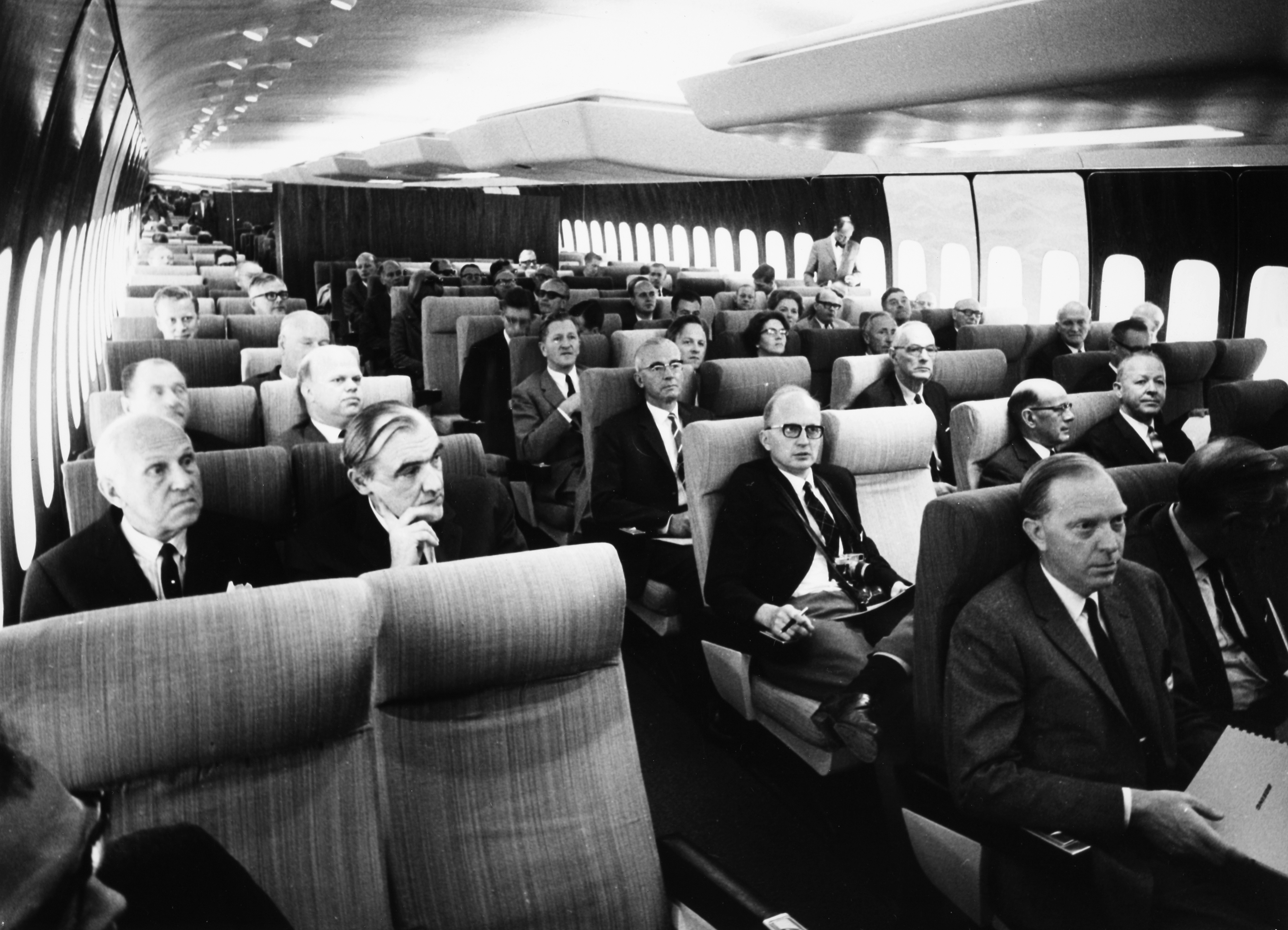 Boeing 747 rollout